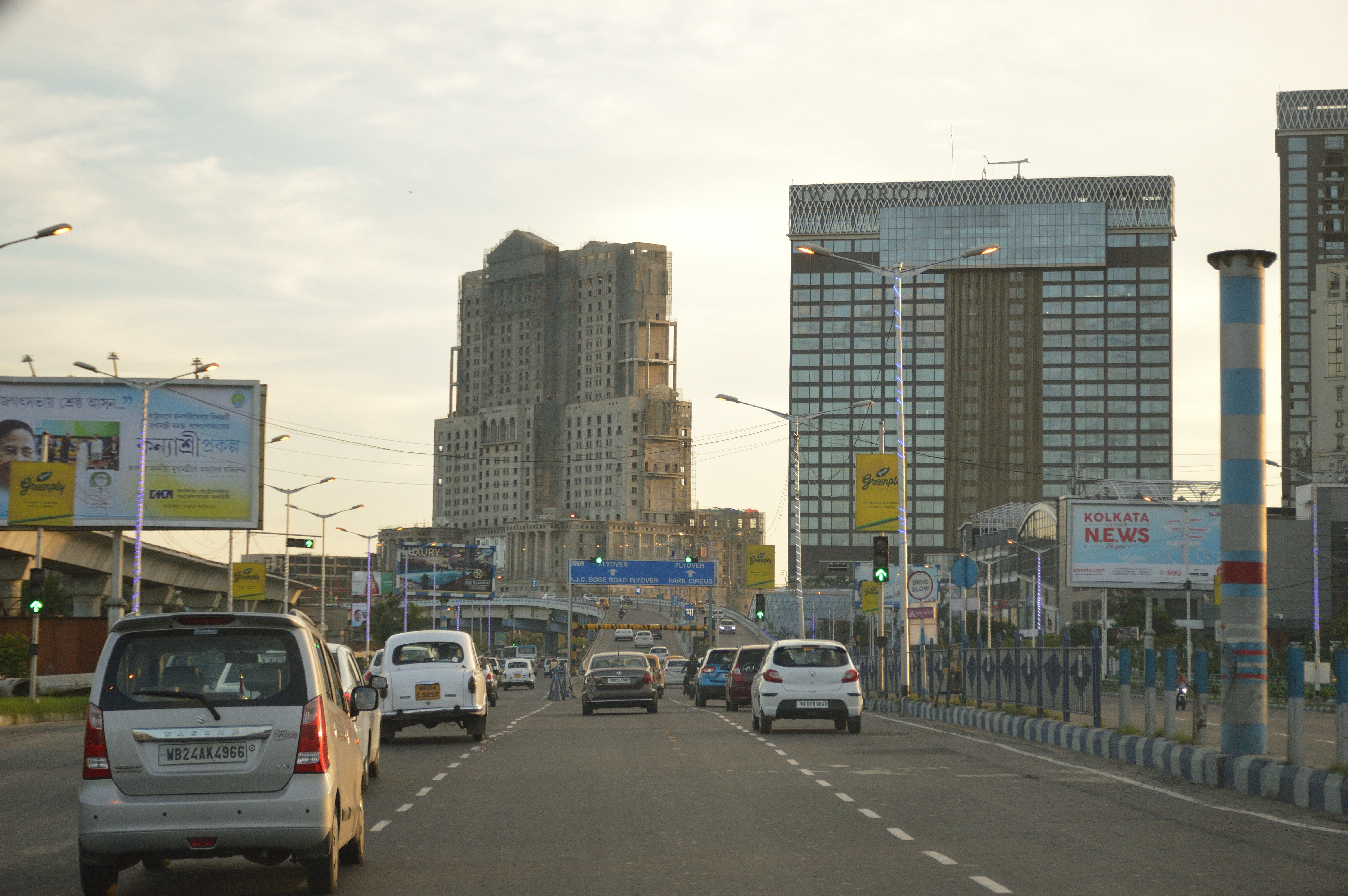 This photograph was taken in Kolkata.